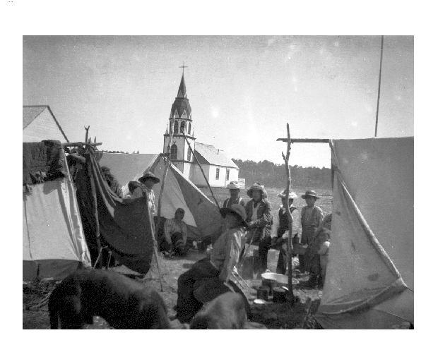 First Nations Church at Stoney Creek. Photo taken 1908.